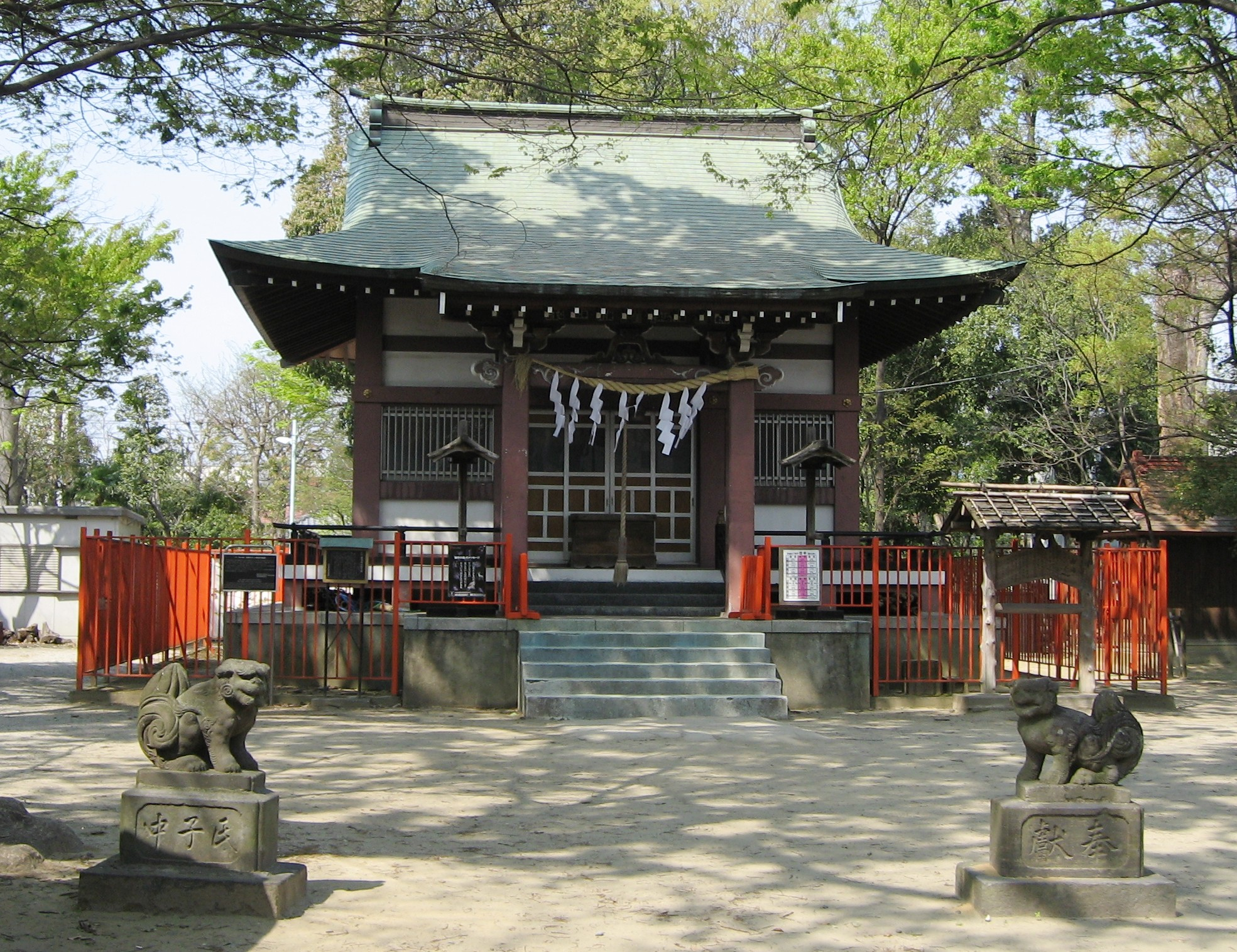 Aoi Shinto Shrine located in Inagi, Tokyo, Japan.